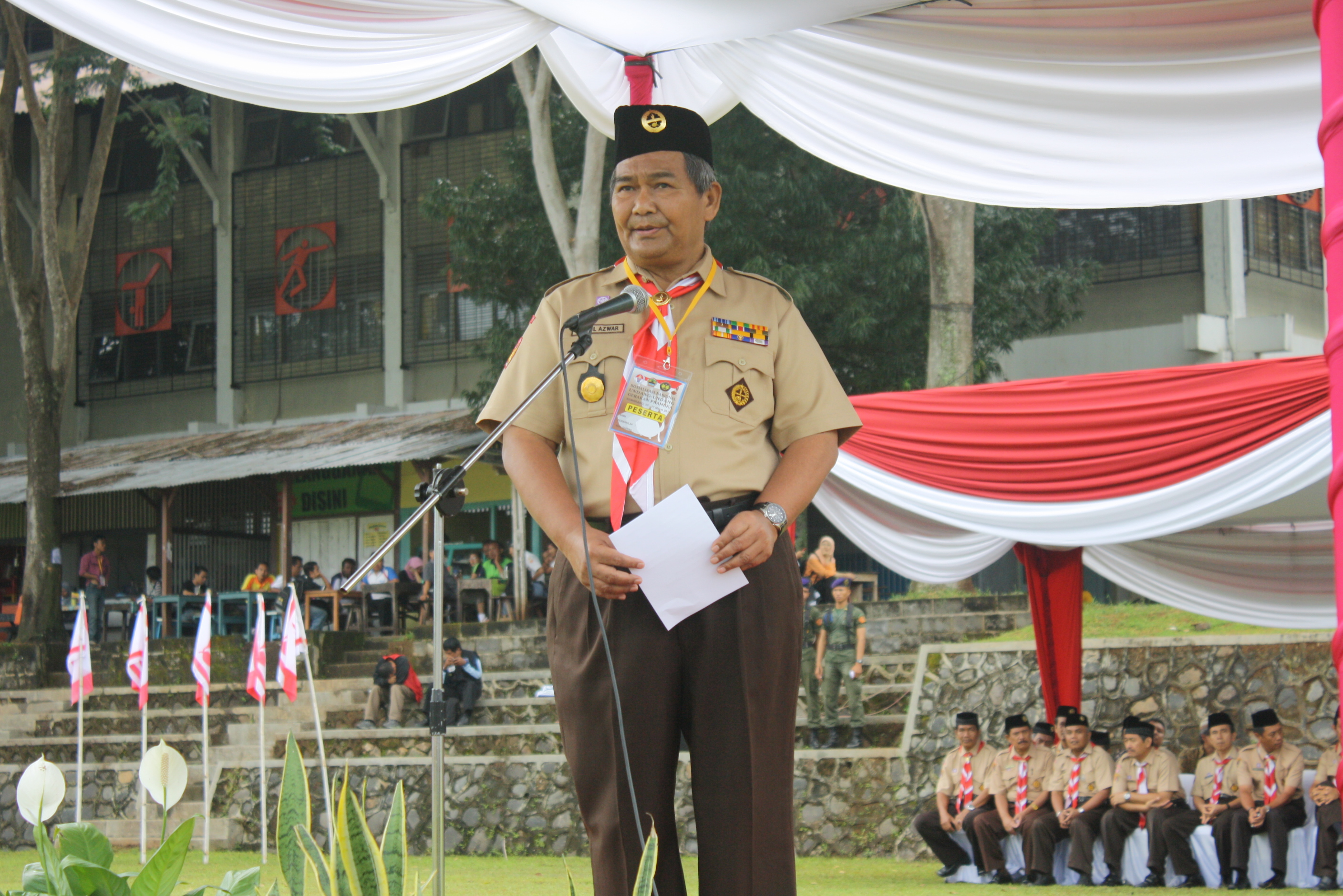 azrul azwar